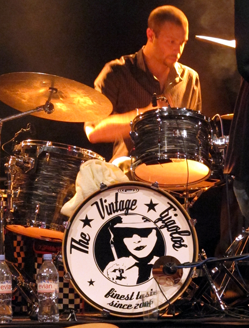 The drummer of The Vintage Gigolos